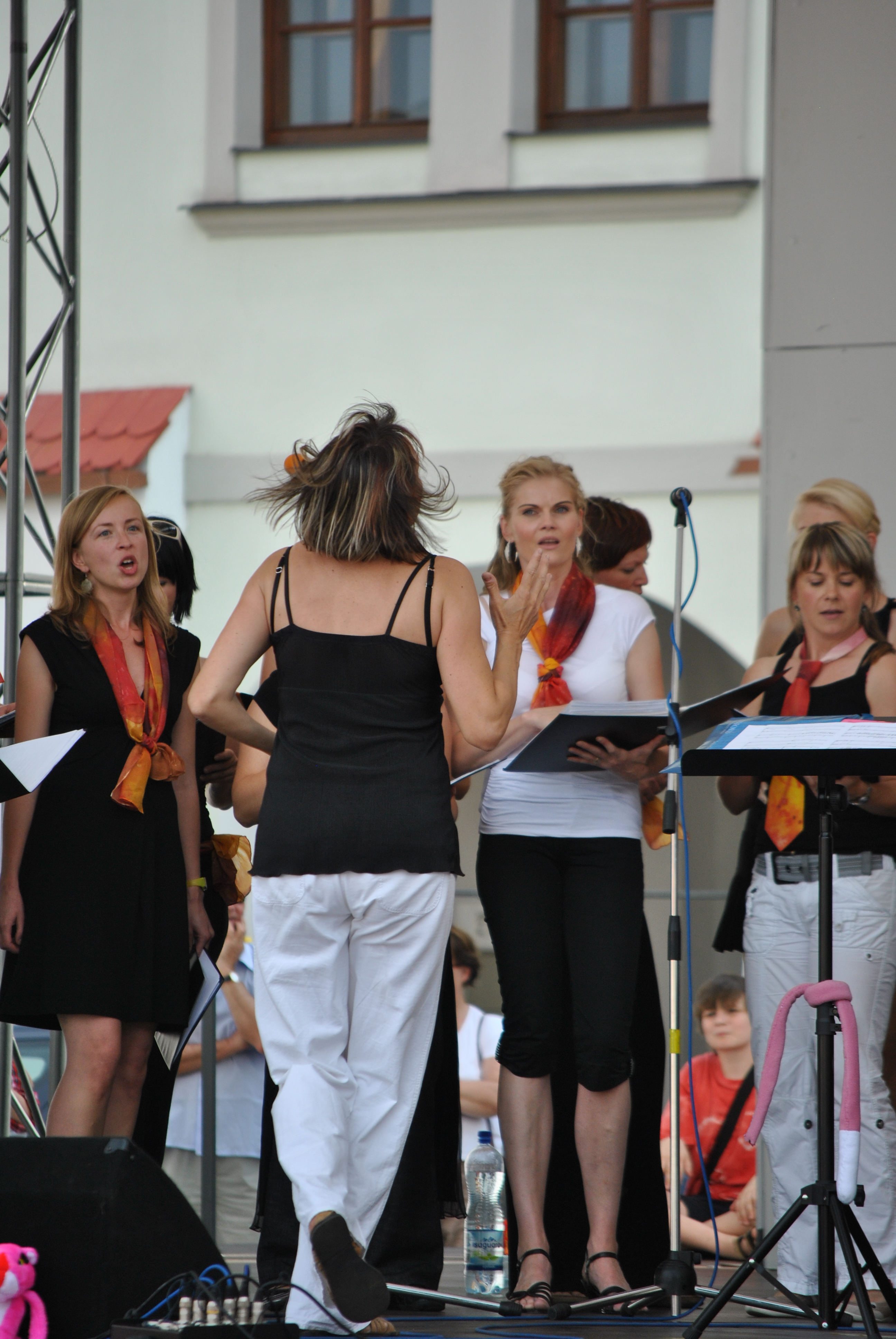 Zesrandy choir 3 performing at Kroměříž Main square